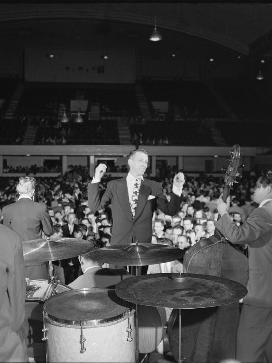 Gottlieb, William P., 1917-, photographer. [Portrait of Stan Kenton, Shelly Manne, and Eddie Safranski, 1947 or 1948] 1 negative : b&w ; 3 1/4 x 4 1/4 in. Notes: Gottlieb Collection Assignment No. 177 Purchase William P. Gottlieb Forms part of: William P. Gottlieb Collection (Library of Congress). Subjects: Kenton, Stan Manne, Shelly Safranski, Eddie, 1918-1974 Stan Kenton Orchestra Jazz musicians--1940-1950. Conductors (Music)--1940-1950. Pianists--1940-1950. Format: Portrait photographs--1940-1950. Group portraits--1940-1950. Film negatives--1940-1950. Rights Info: Mr. Gottlieb has dedicated these works to the public domain, but rights of privacy and publicity may apply. Repository: (negative) Library of Congress, Prints & Photographs Division, Washington D.C. 20540 USA, Part Of: William P. Gottlieb Collection (DLC) 99-401005 General information about the Gottlieb Collection is available at Persistent URL: Call Number: LC-GLB13- 1302 This work is from the William P. Gottlieb collection at the Library of Congress. Rights and restrictions. In accordance with the wishes of William Gottlieb, the photographs in this collection entered into the public domain on February 16, 2010.